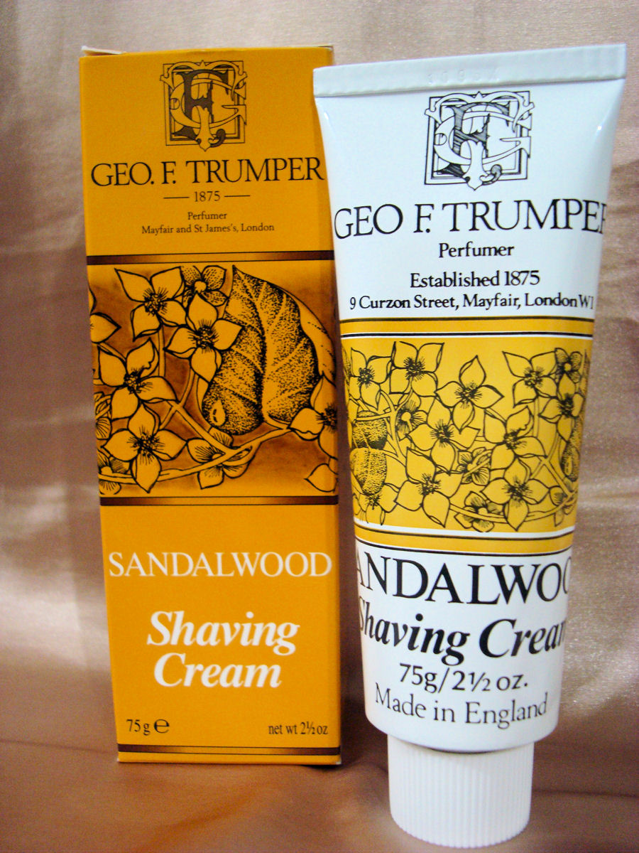 Shaving cream GFT Sandalwood